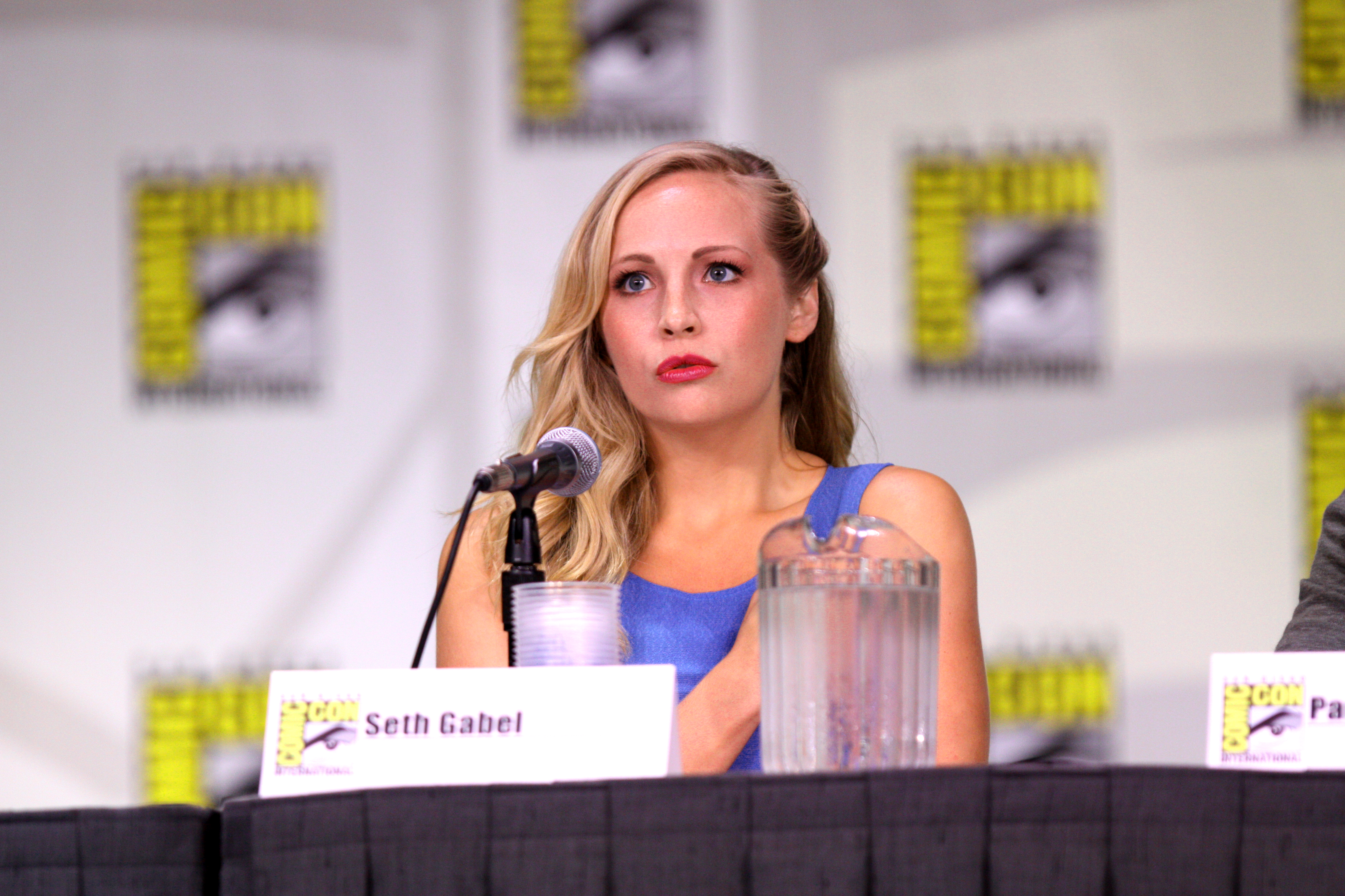 Candice Accola at the 2011 San Diego Comic-Con International in San Diego, California.